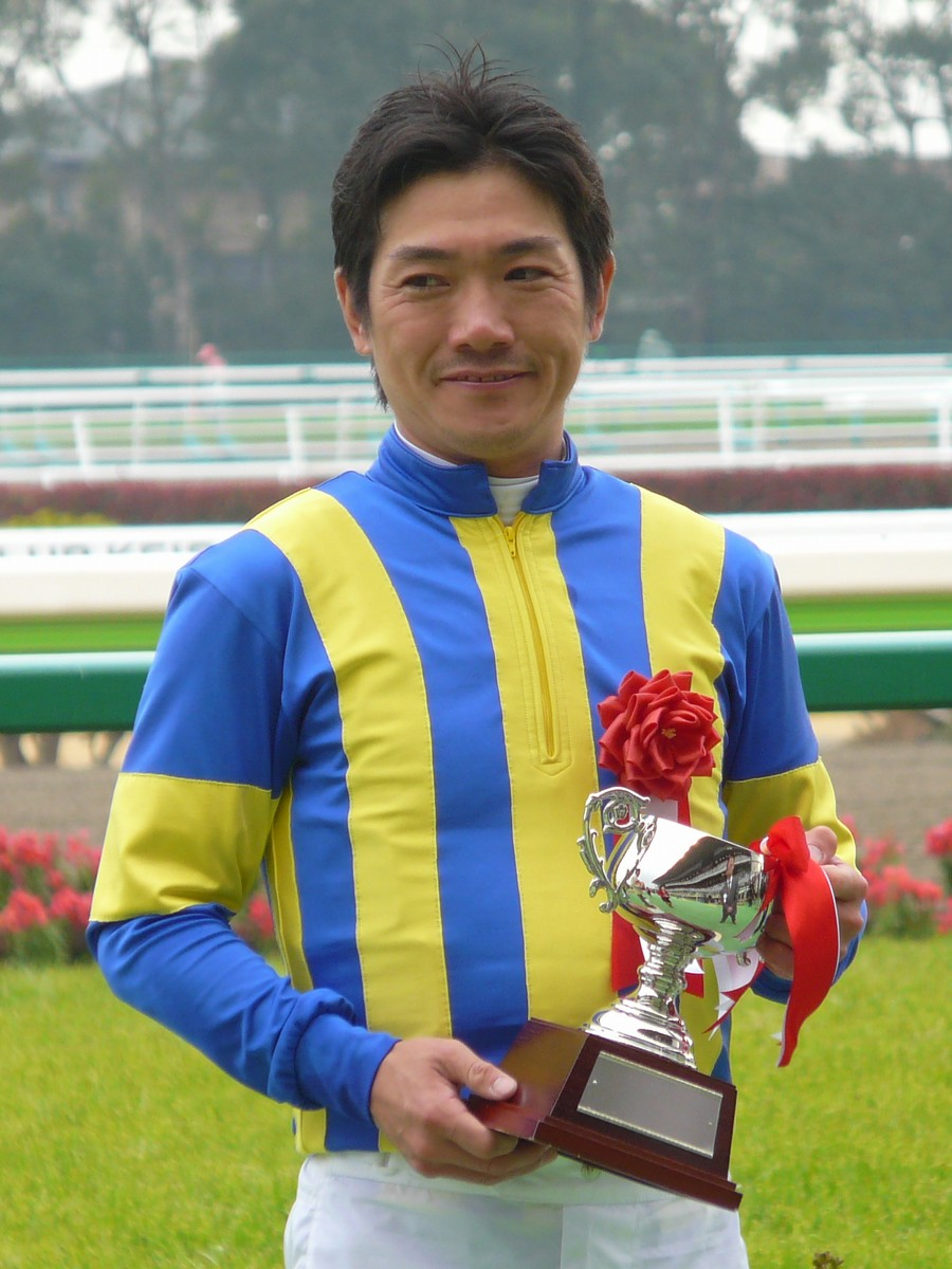 Katsuharu-Tanaka20100313